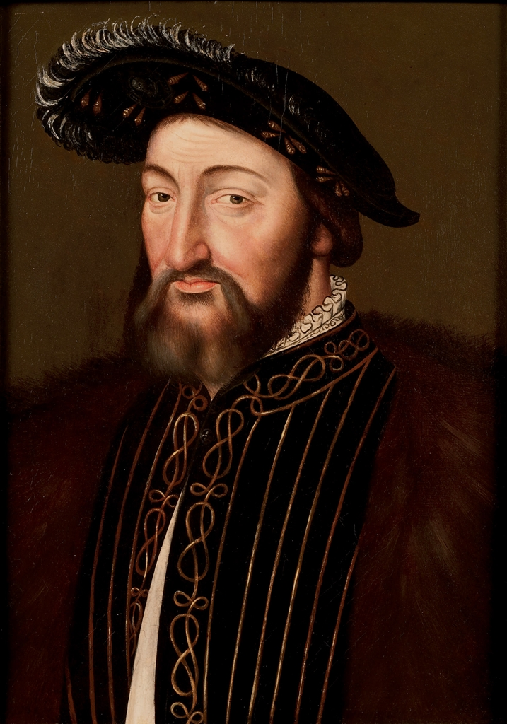 Portrait of Francis I of France ( 1494-1547)